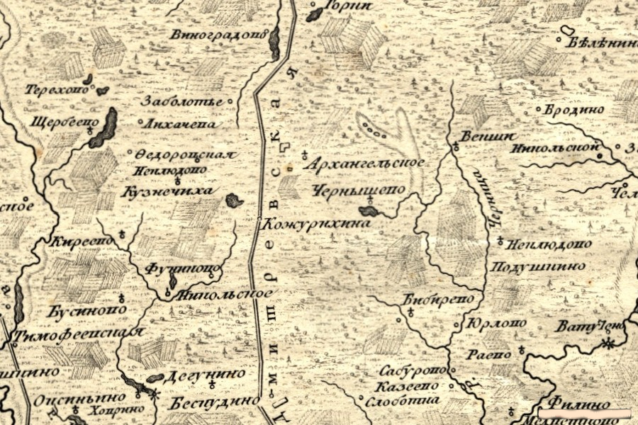 Plan of Arkhangelsk-Tyurikova in 1766.